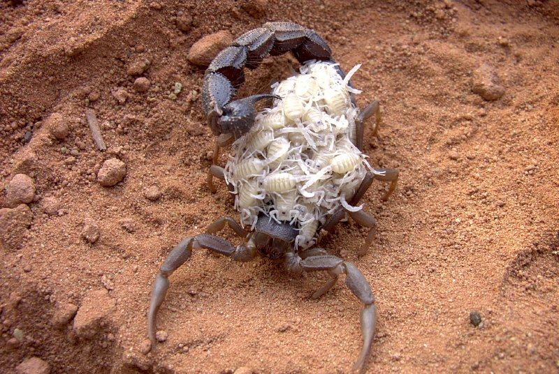 Parabuthus transvaalicus - juvenile specimens